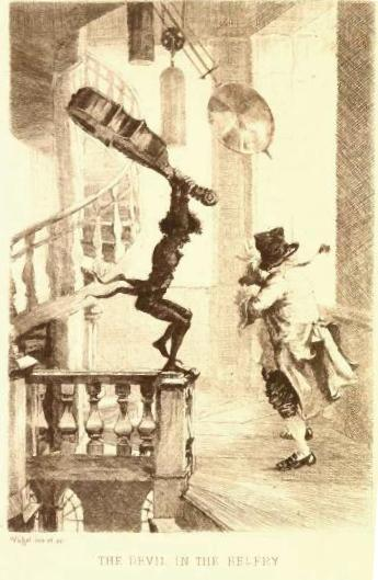 Illustration for Poe's The Devil in the Belfry in "Tales and poems - vol.2" (Philadelphia: G. Barrie, 18??) on the page to face the contents